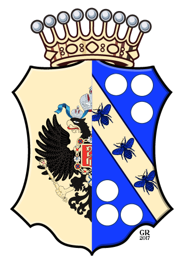 Coat of arms of the Counts of Reutern. Dexter part of the shield was granted by Alexander II of Russia on 25 April 1890 given in Gatchina Palace, Russia. Sinister part of the shield was granted to von Reutern noble family on 21 June 1691 in Germany and Sweden.[1] [2] "By the Sovereign's Decree given to the Government Senate on the 20th day of January 1890. Michael von Reutern, The Secretary of State, Statesman, the Secret Privy Councilor, in retribution of his half-century zealous and useful service to the Crown and the Fatherland and to commemorate the special Sovereign's favor, was graciously erected to the dignity of the Count of the Russian Empire."[3] Escutcheon Dexter: Or, a double-headed eagle displayed Sable, armed and langued Gules, crowned Proper; with an escutcheon Gules, a (AII) monogram of Alexander II of Russia Or, and Order of St. Andrew the Apostle the First-Called chain around it. Sinister: Azure, a bend Or charged with three bees Azure and three coins Argent on either side dexter (von Reutern) CoronetA coronet of a Count degree 'Crest Issuant from a Count coronet Or a pair of wings Azure each charged with 3 coins Argent.